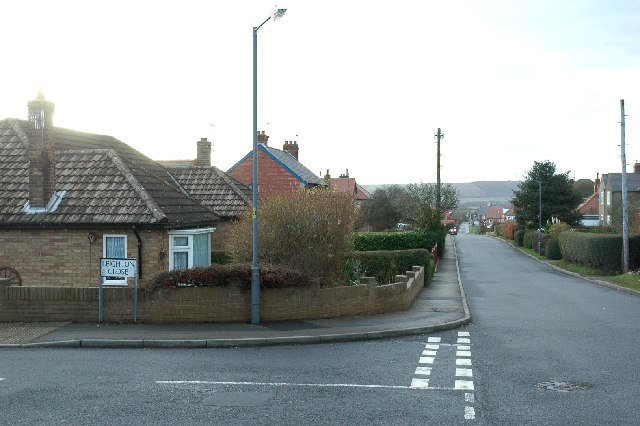 Looking down Crab Lane, Crossgates. A rather unco-ordinated mixture of post WWII building, with the northern escarpment of the Yorkshire Wolds in the far distance. The street-name Leighton Close probably refers to the Victorian artist Lord Leighton who was born in nearby Scarborough.